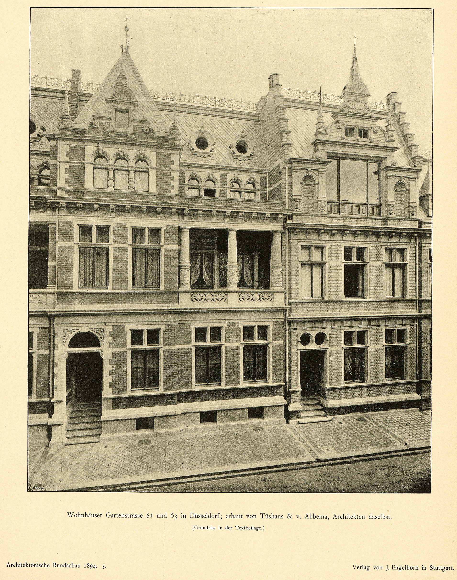 t